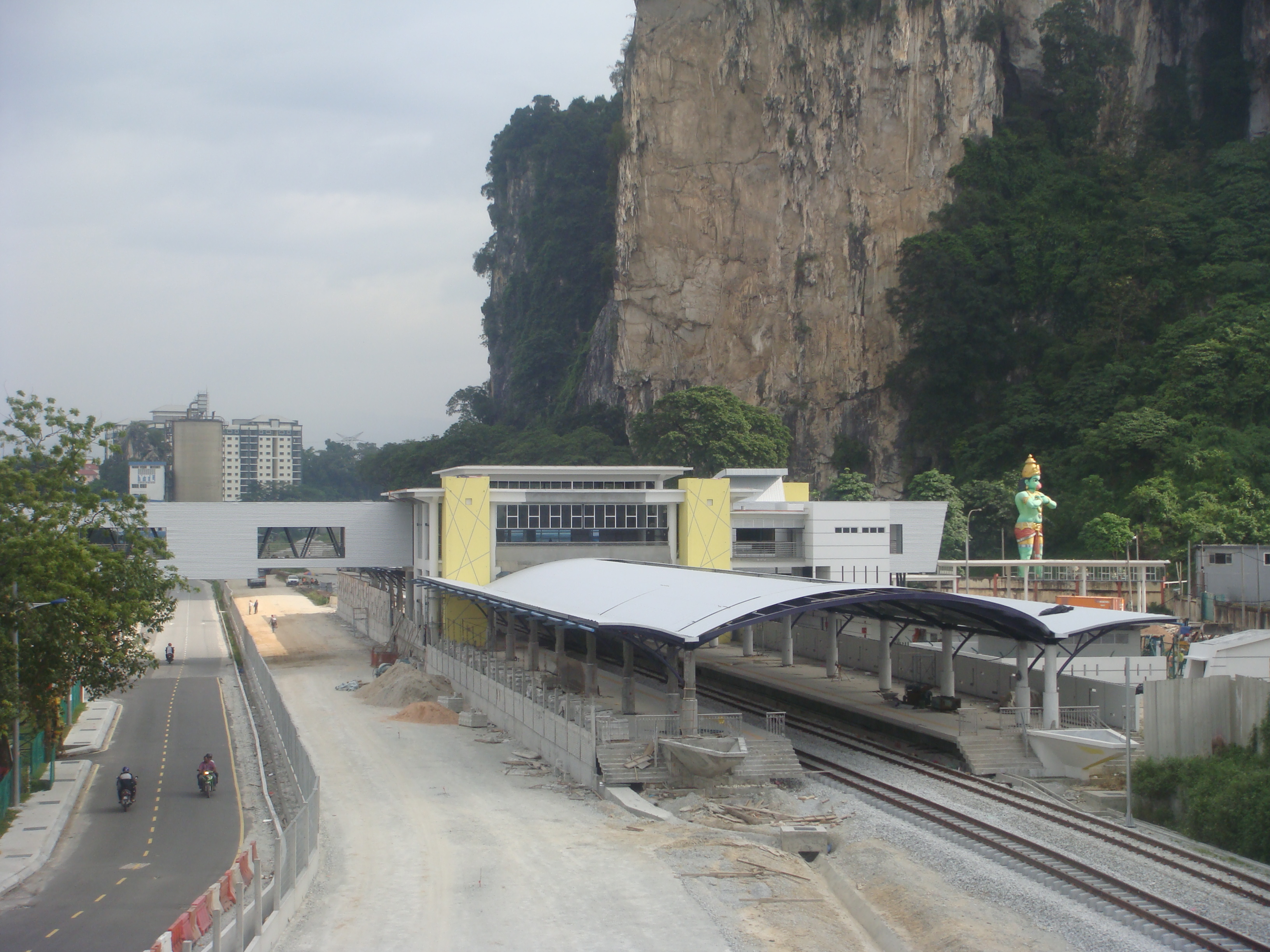 Batu Caves Railway Station (Under Construction)